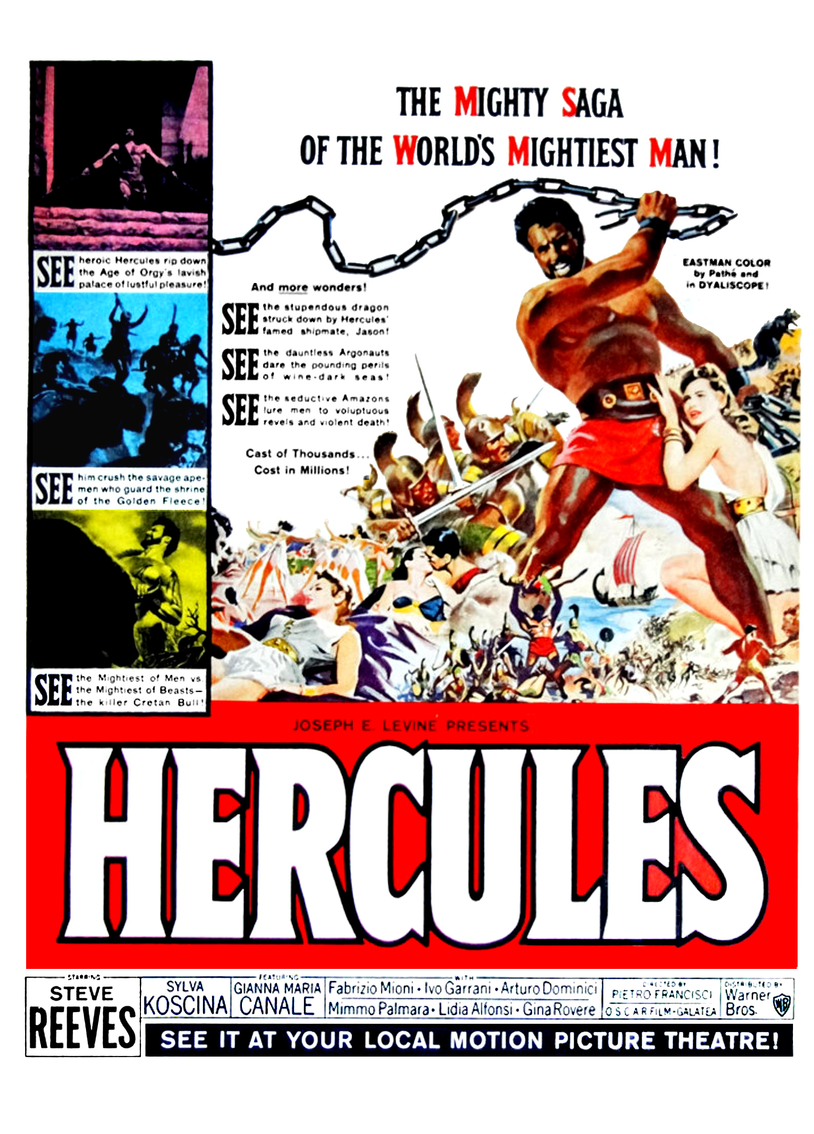 American magazine ad for the film Hercules (1959)